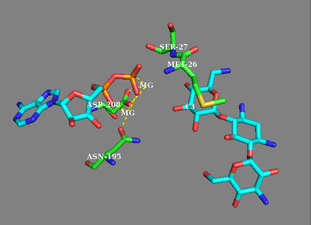 APH ligands ATP and kanamycin with relevant active site residues shown